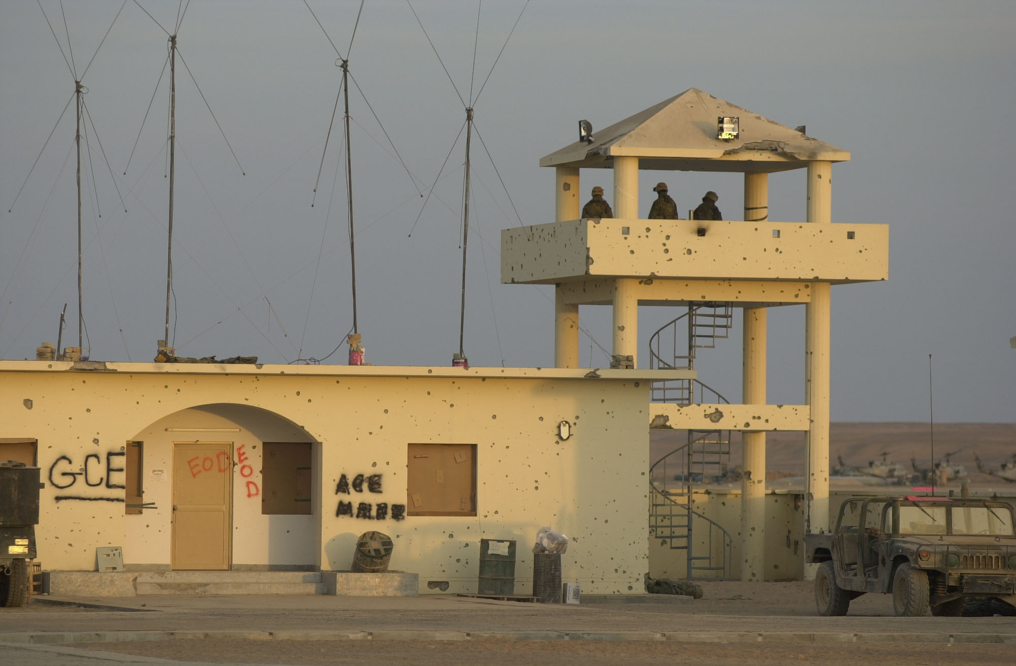 011202-N-6520M-018 Camp Rhino, Afghanistan (Dec. 2, 2001) -- A bullet-riddled tower stands guard over the desert landing strip code named “Rhino” Rhino is a forward base of operations strategically located inside Afghanistan. U.S. Navy Photo By Photographer’s Mate 1st Class Greg Messier. (RELEASED)